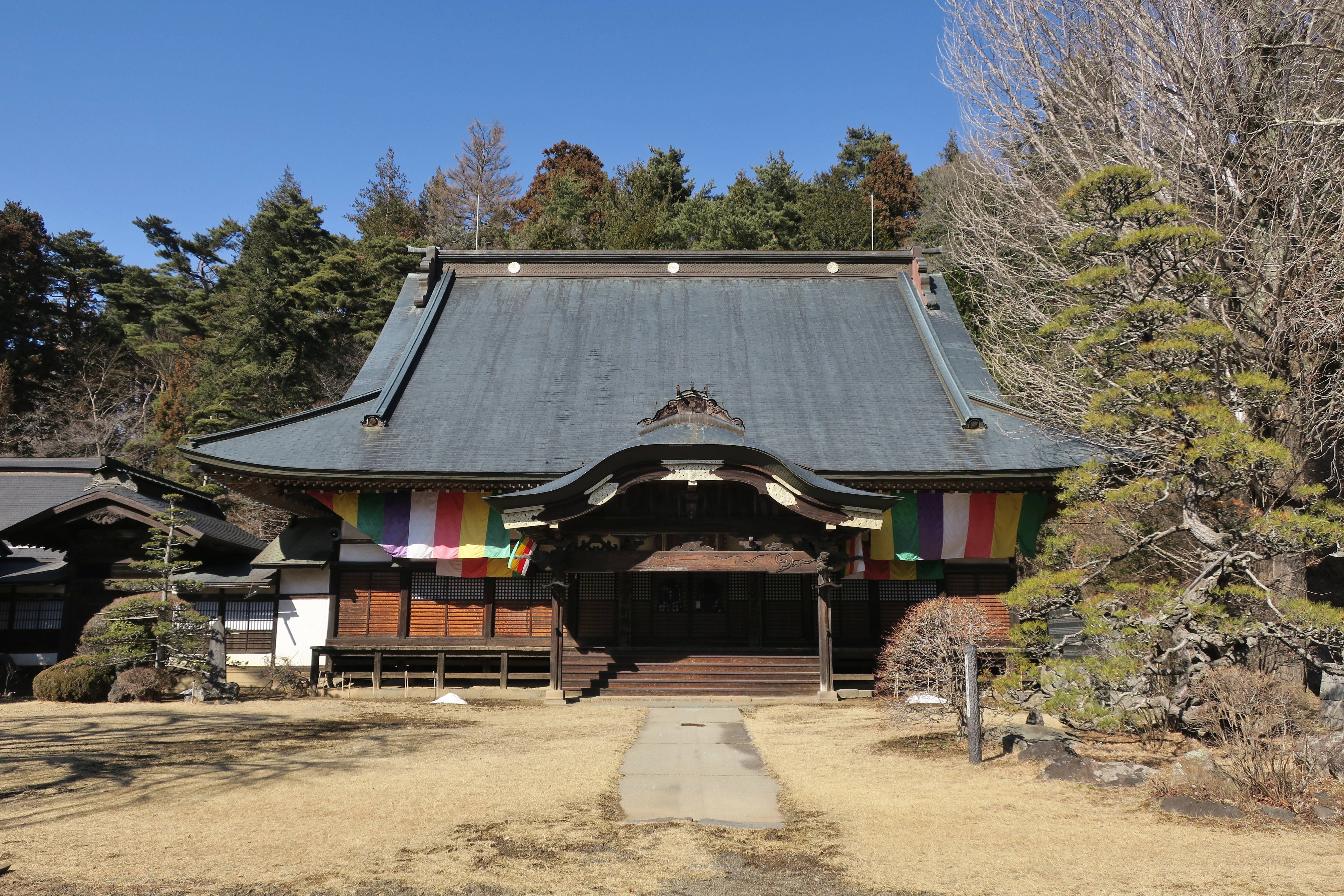 Shinraku-ji (Miyota, Nagano).